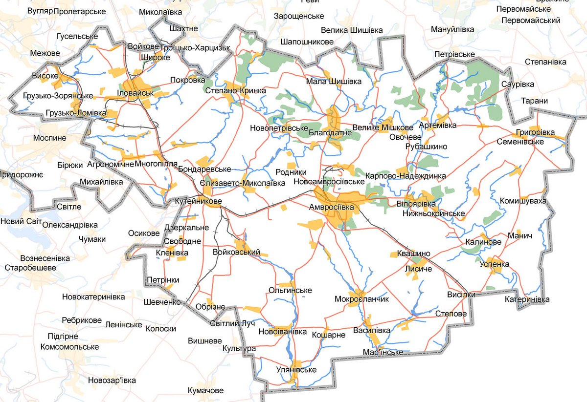 Map of Amvrosiivka Raion, Donetsk Oblast, Ukraine